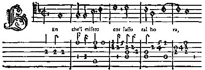 Facsimile of a 15th century musical score of a frottola (pronounced [ˈfrɔttola]; plural frottole), the predominant type of Italian popular secular song of the late fifteenth and early sixteenth century. It was the most important and widespread predecessor to the madrigal. Madrigal Ben che'l misero cor lasso tal hora.